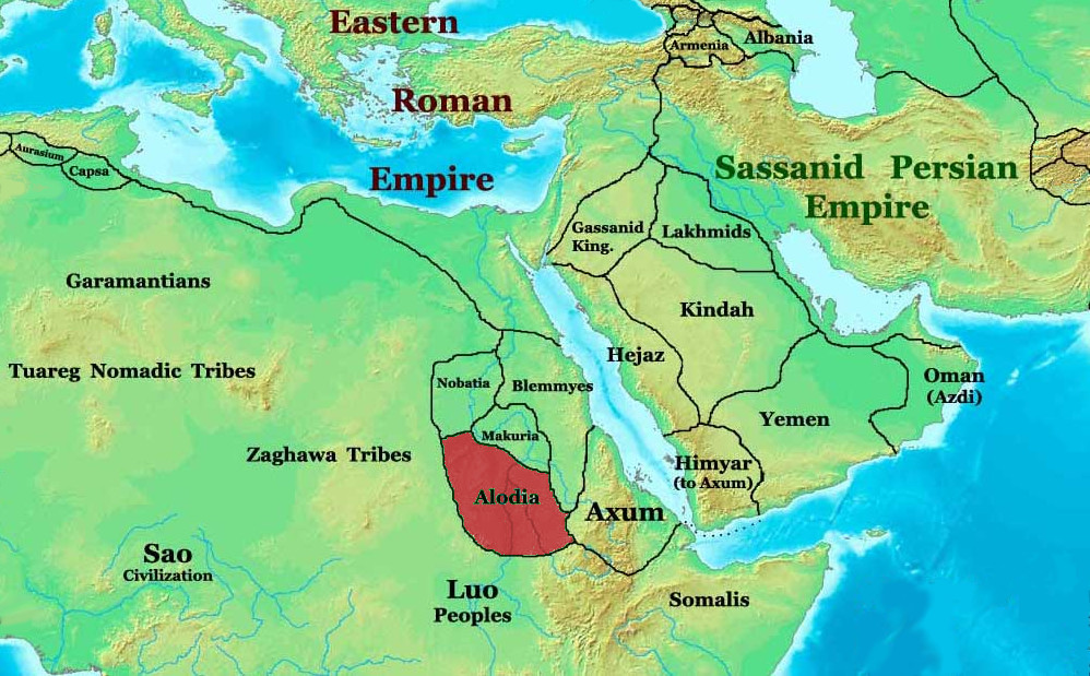 Reign of Alodia highlighted in the map of Northern Africa.